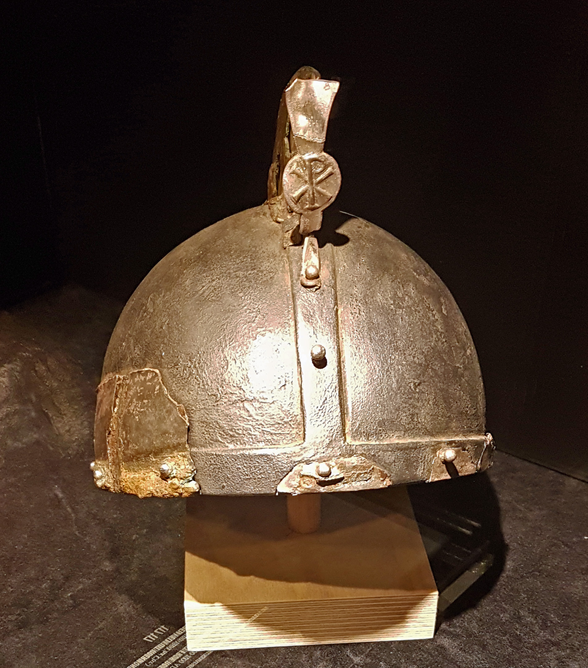 Late-Roman iron helmet with a christogram (chi-rho) found in Kessel, Limburg, the Netherlands. Collection of Centre Céramique, Maastricht. Photographed at the temporary exhibition Top or Topic in Centre Céramique in Maastricht.